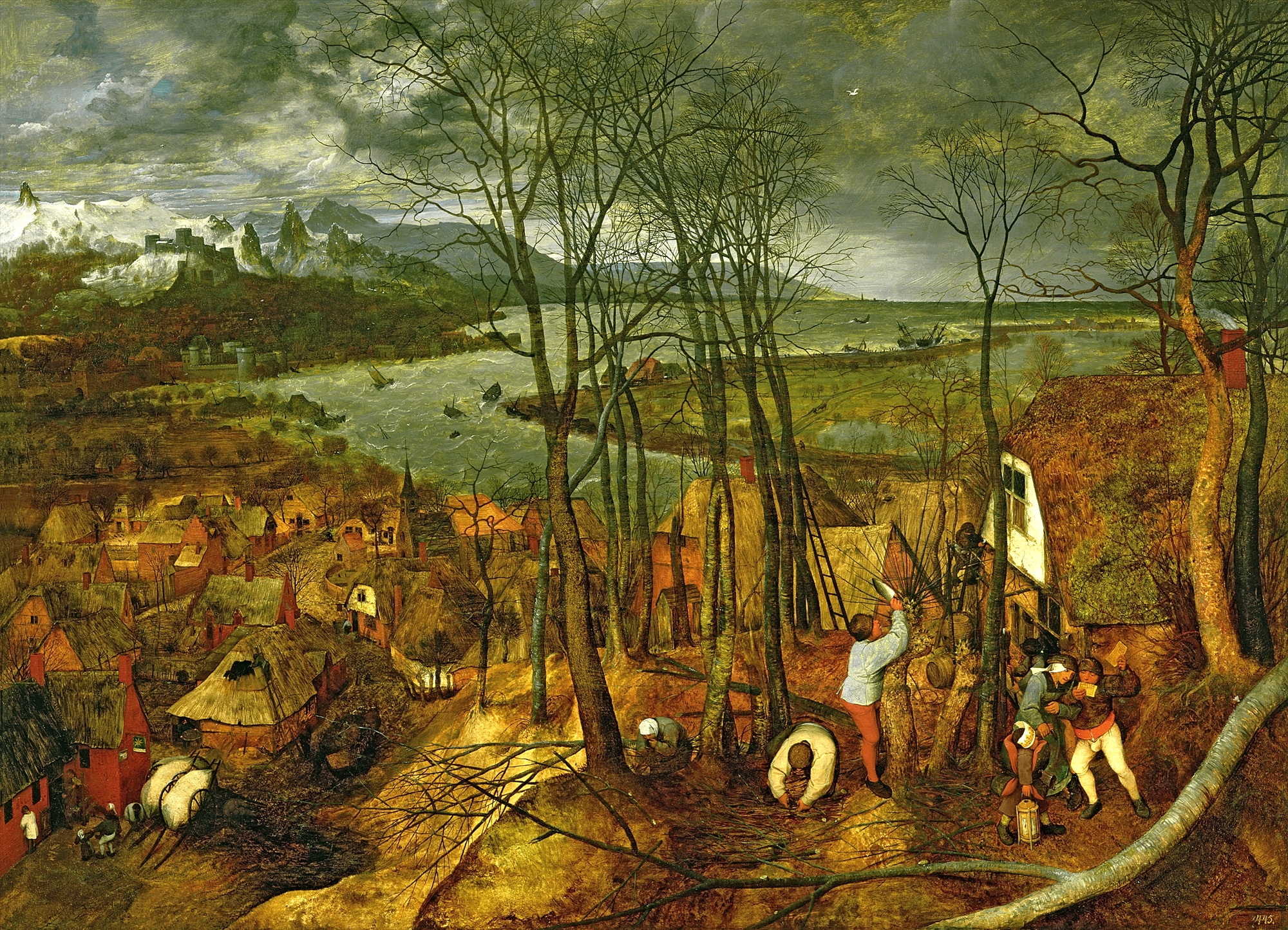 From the series of pictures of the seasons: the gloomy day (early spring)